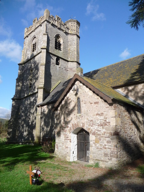 St. Brides Wentlooge: church porch and tower Detail of the 1184318. The average parishioner would likely have to duck to avoid a headache when entering the church.